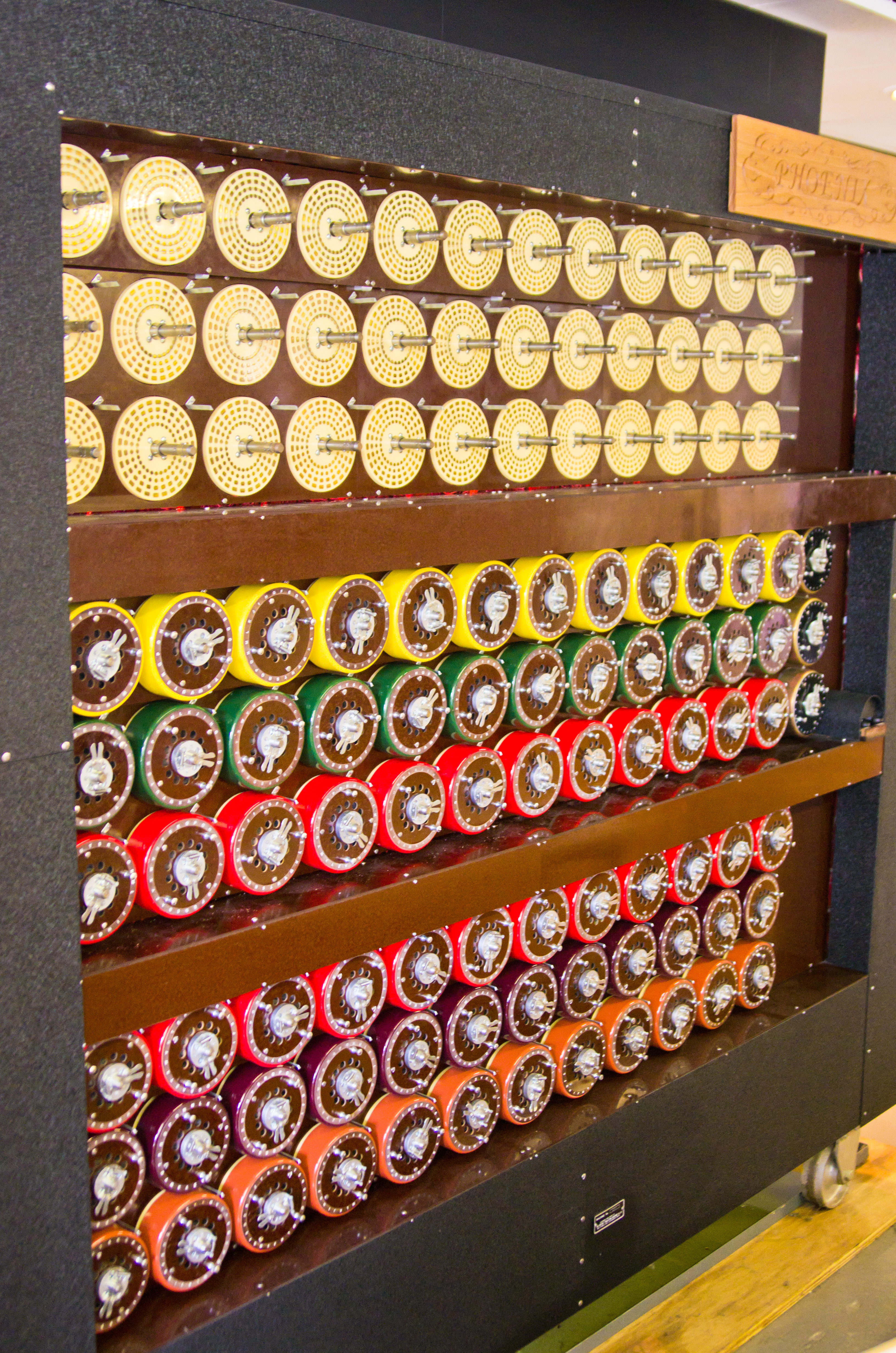 Bletchley Park Bombe (replica of the original Bombe)